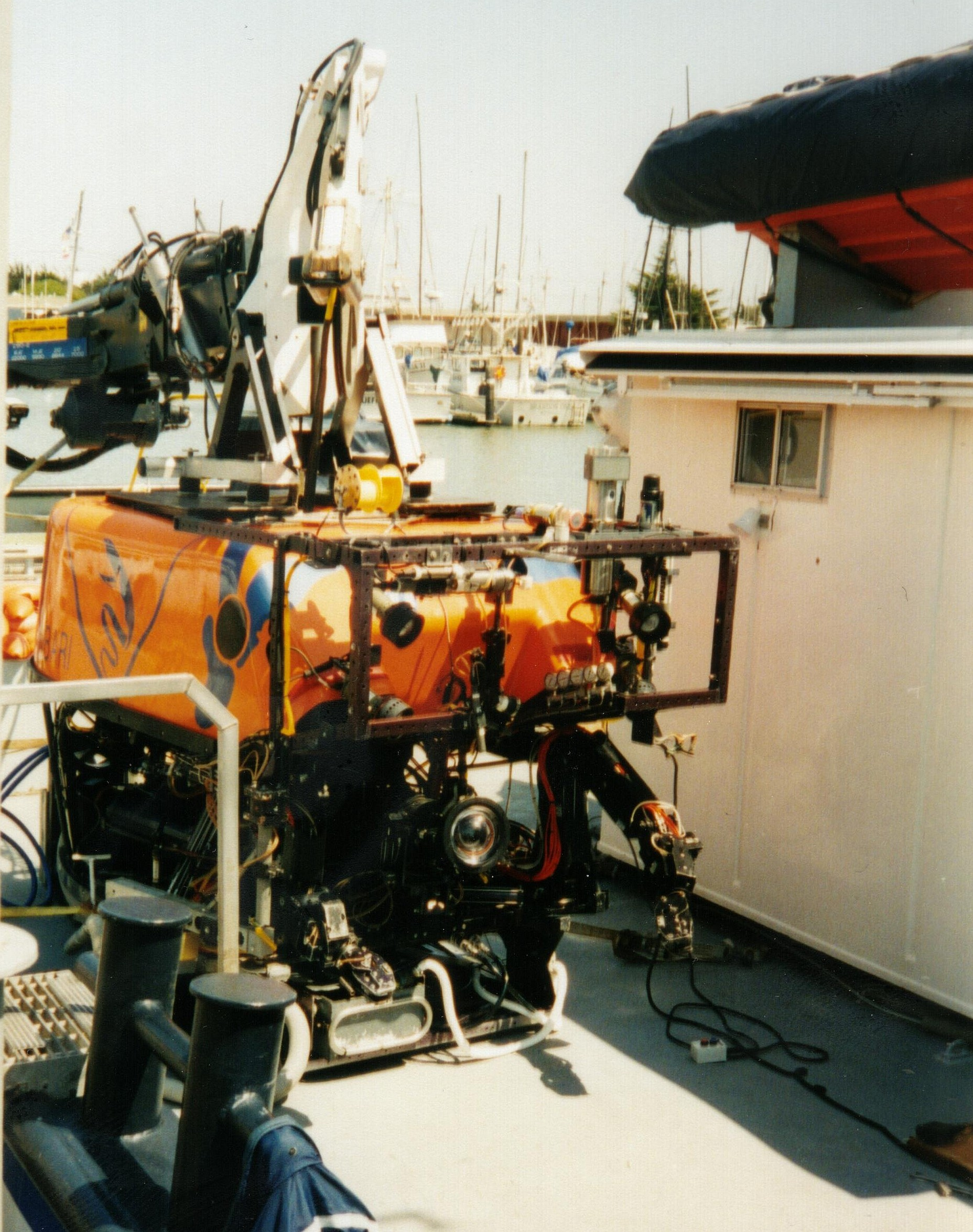 ROV Ventana on board of the MBARI research vessel Point_Lobos in Moss Landing